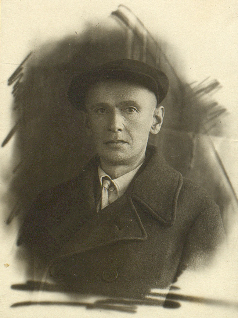 Yevgeny Dmitrievich Polivanov in 1930